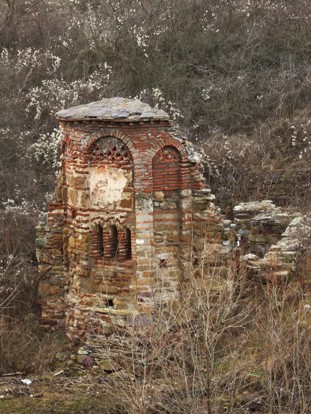 Old church in the village of Marvodol, Bulgaria.